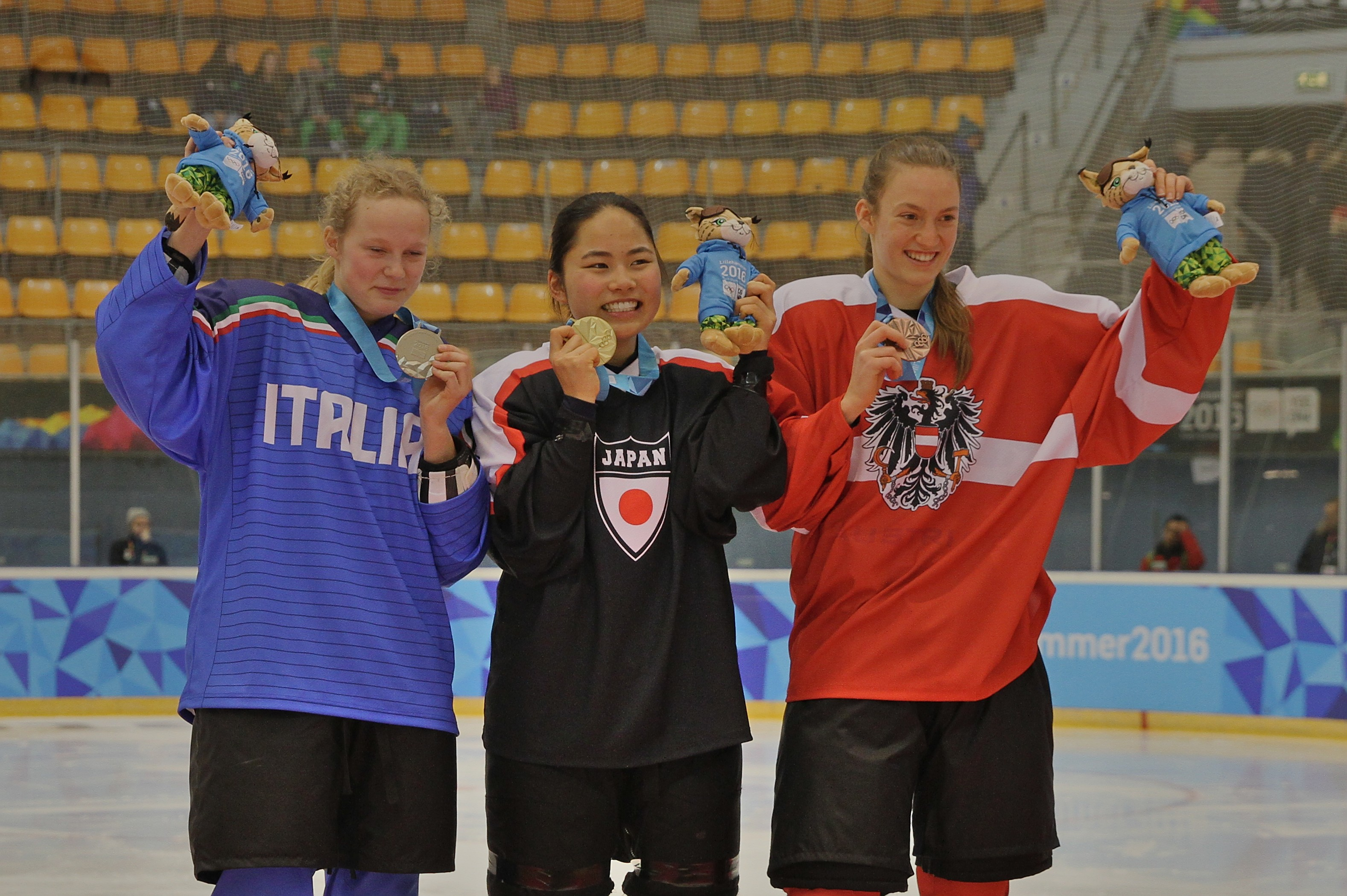 Lillehammer 2016 Hockey skills women - Sena Takenaka (Japan, gold), Anita Muraro (Italy, silver) and Theresa Schafzahl (Austria, bronze)